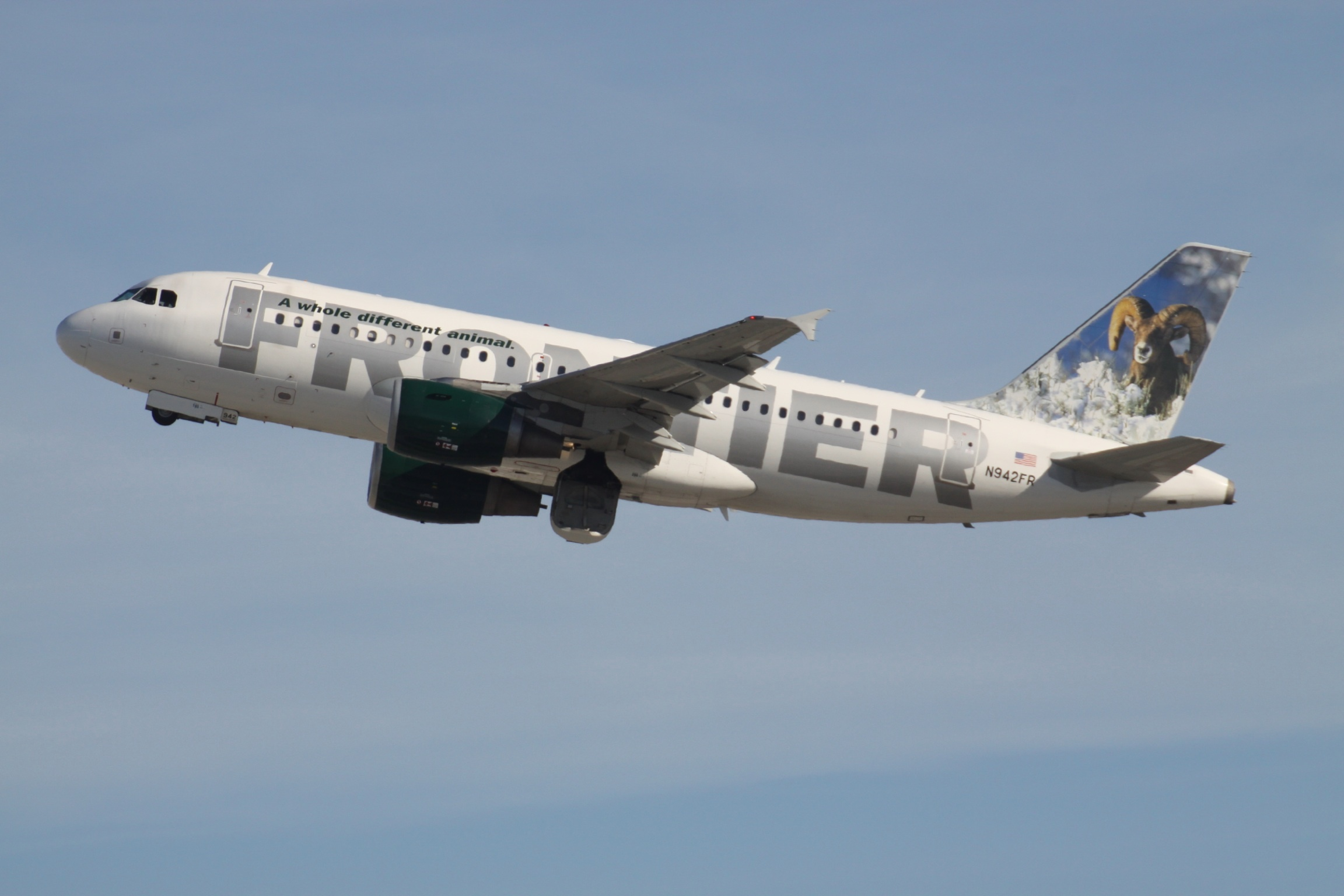 At Los Angeles International